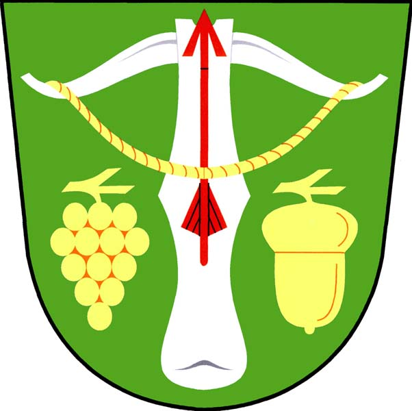 Municipal coat of arms of Lovčice village, Hodonín District, Czech Republic.